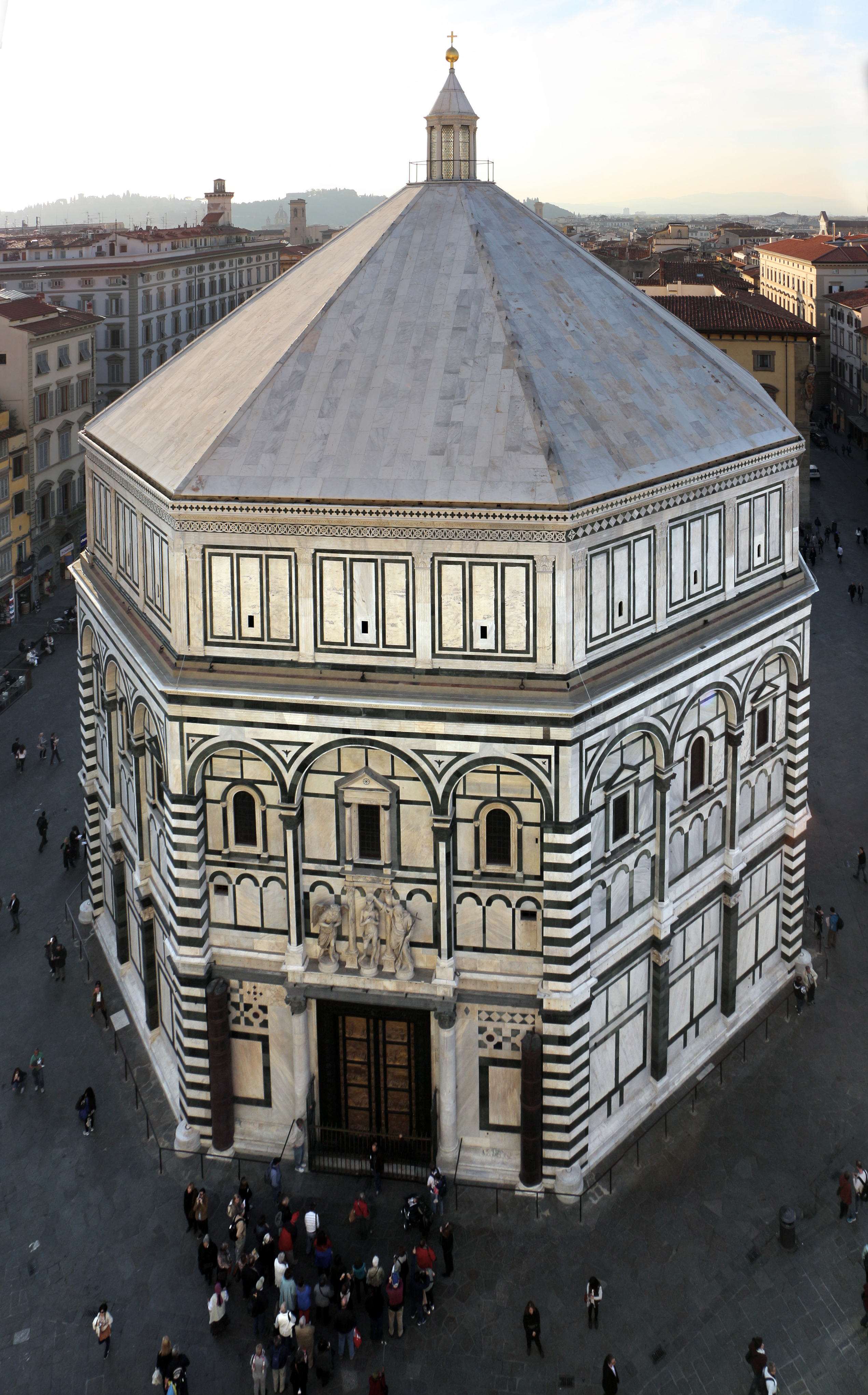 Exterior of Santa Maria del Fiore (Florence)